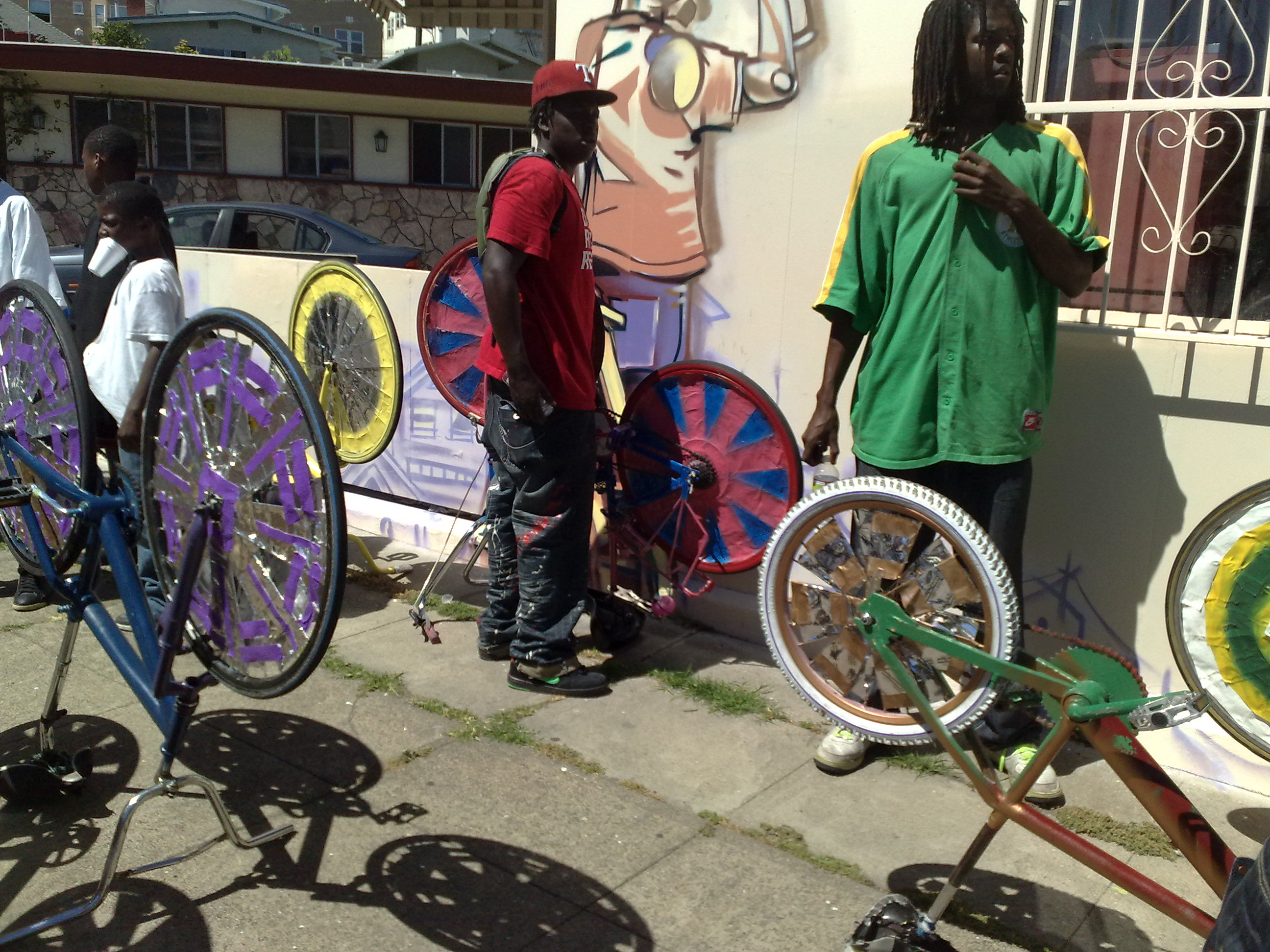 Learn more at